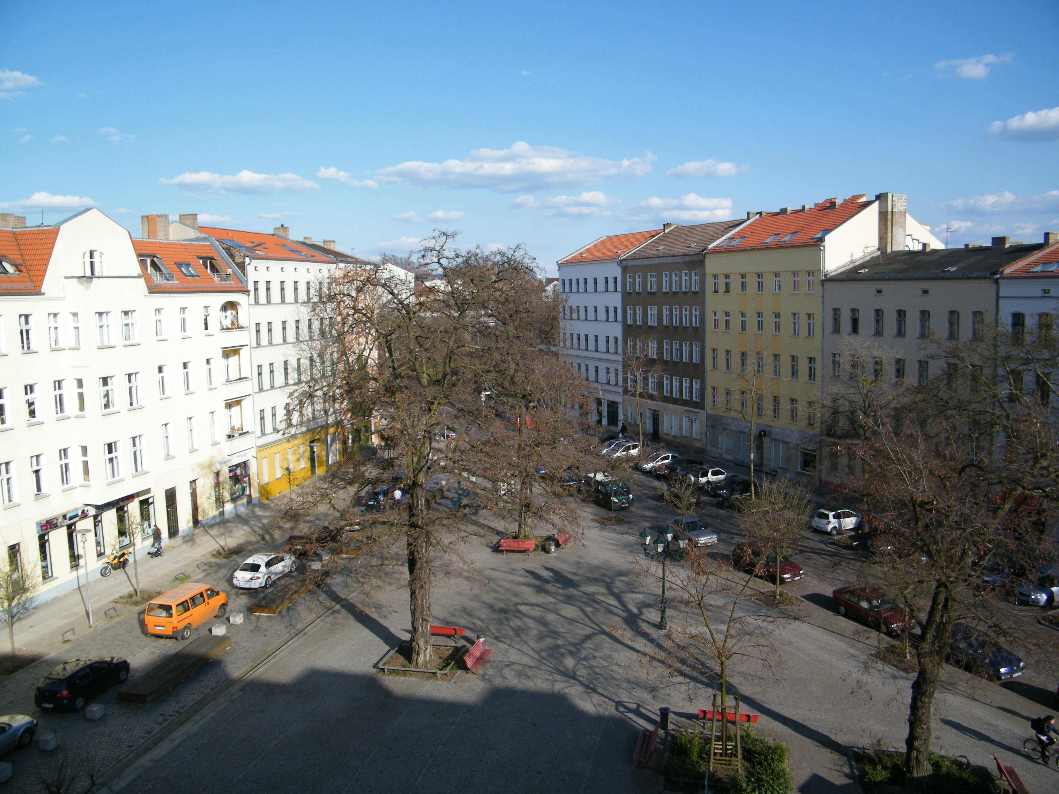 Tuchollaplatz in Berlin, Victoriastadt